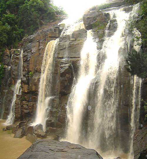 Jonha Falls - This is a popular tourist destination situated 40 Kms from the City of Ranchi, the capital city of the Indian state of Jharkhand. . Jonha Falls lower reach photo.